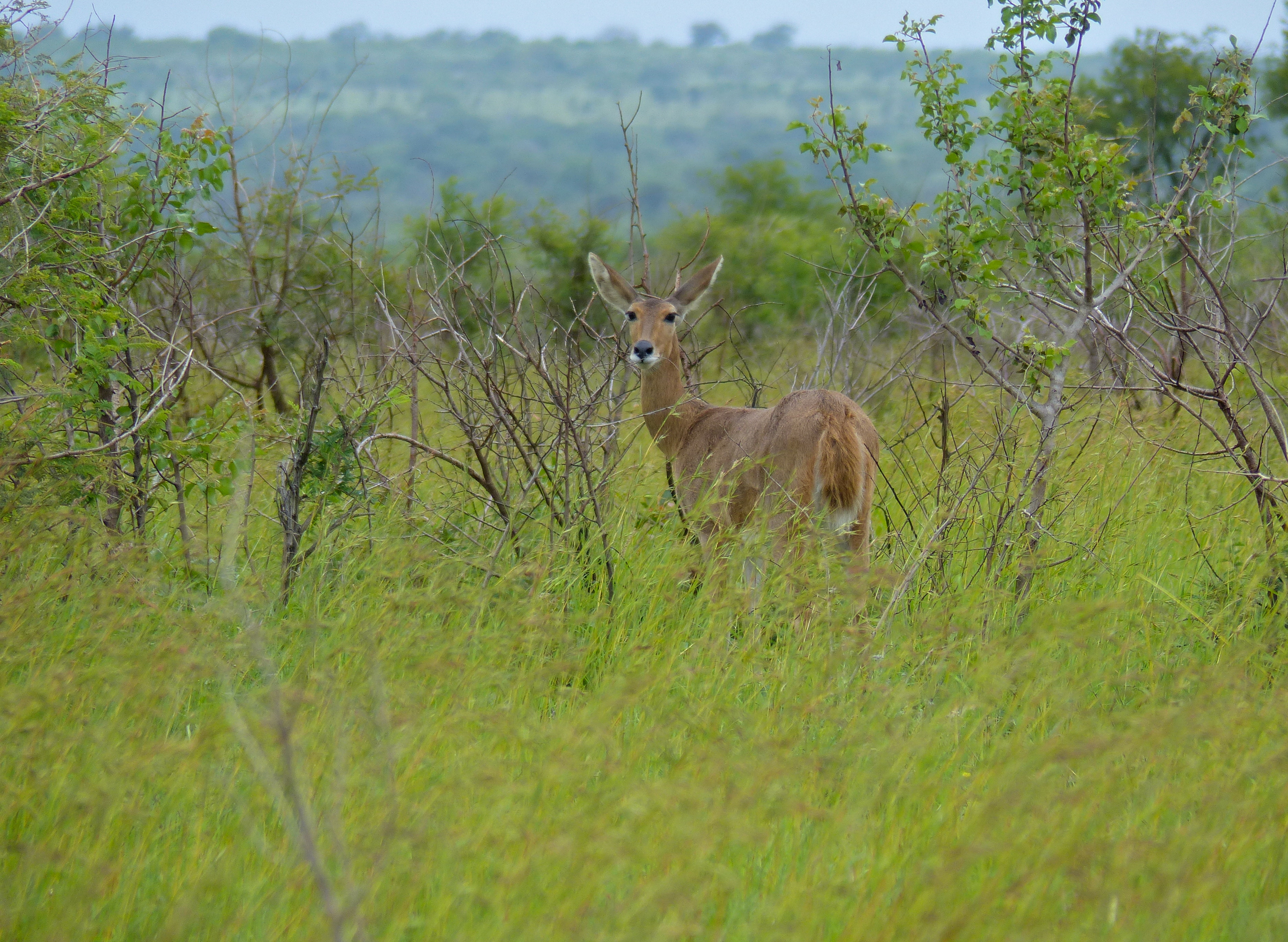 S128 Road North of Lower Sabie, Kruger NP, SOUTH AFRICA